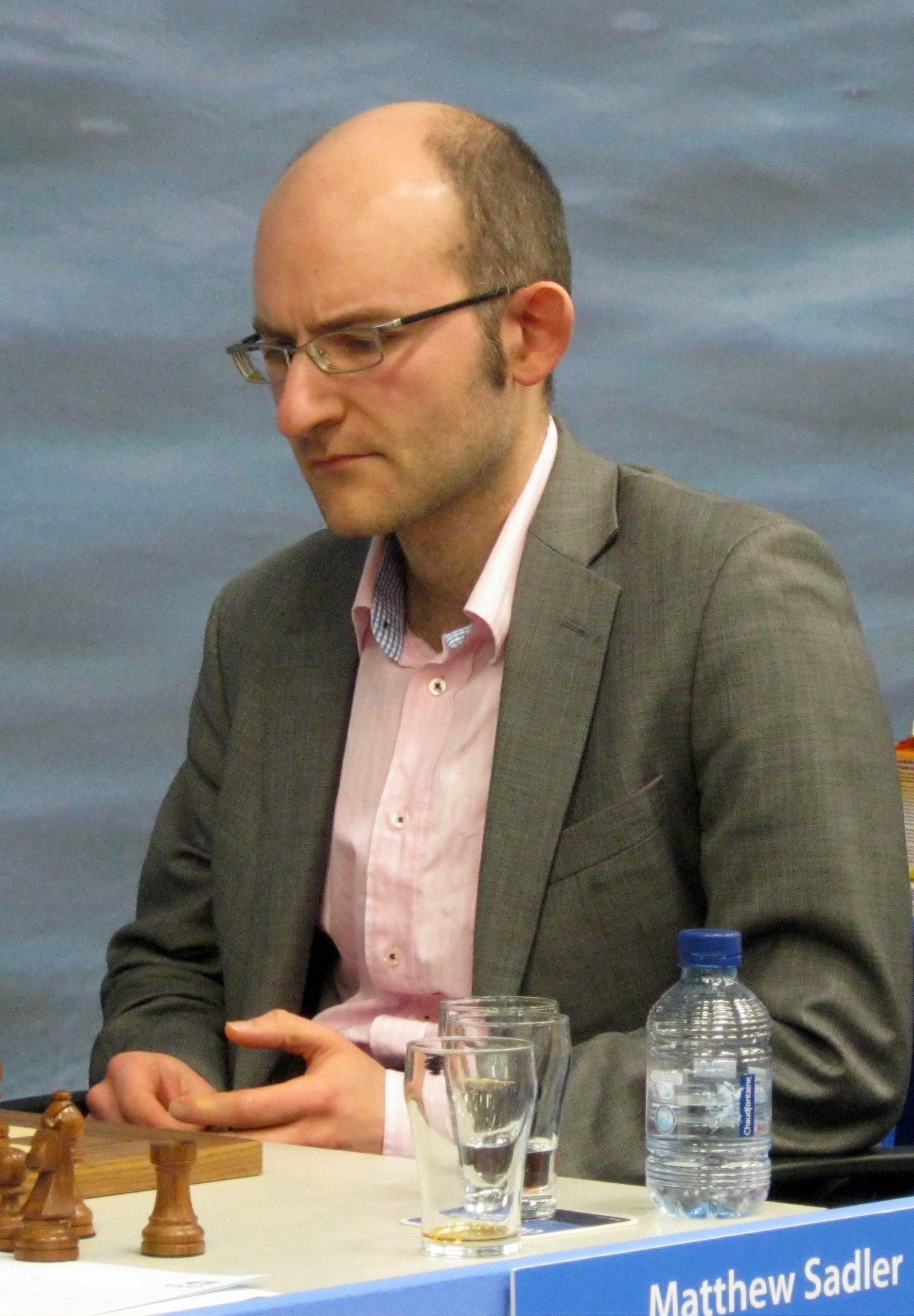 Matthew Sadler, chess grandmaster